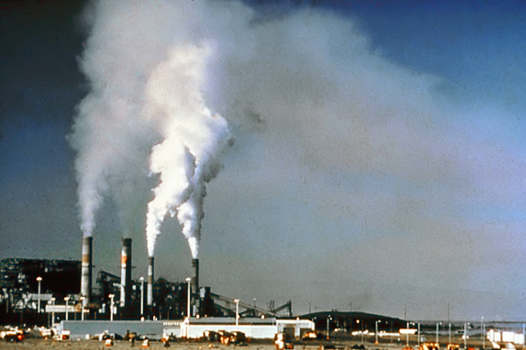 Four Corners Generating Station, San Juan County, New Mexico, USA. Caption:"Power plant, NW corner of New Mexico. Photo was taken prior to installation of emission controls equipment for removal of sulfur dioxide and particulate matter.